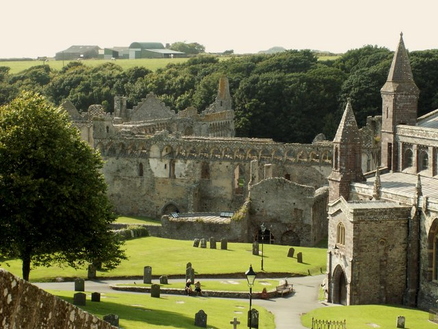 The Bishop's Palace viewed from the gateway The picture shows the entrance to the cathedral on the far right and shows how close it stands to the palace.